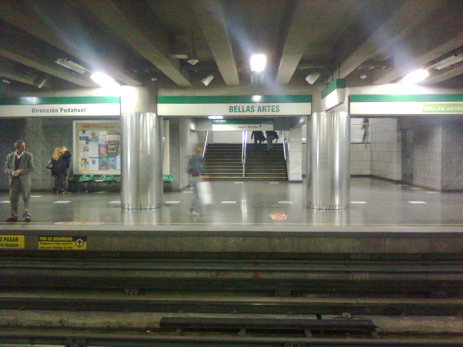 metro